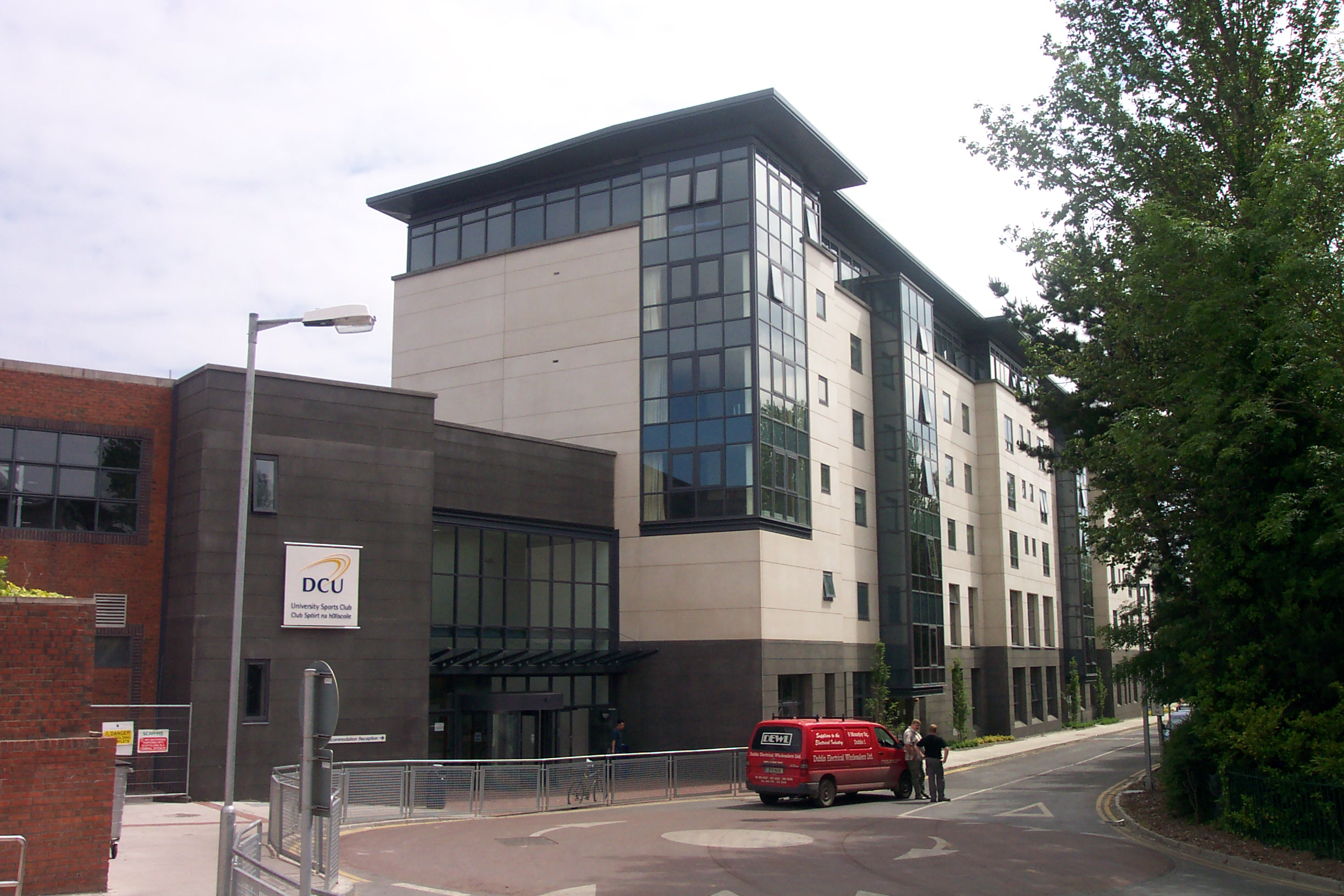 Dublin City University Sports Club This photograph was taken by Beta in June 2005.